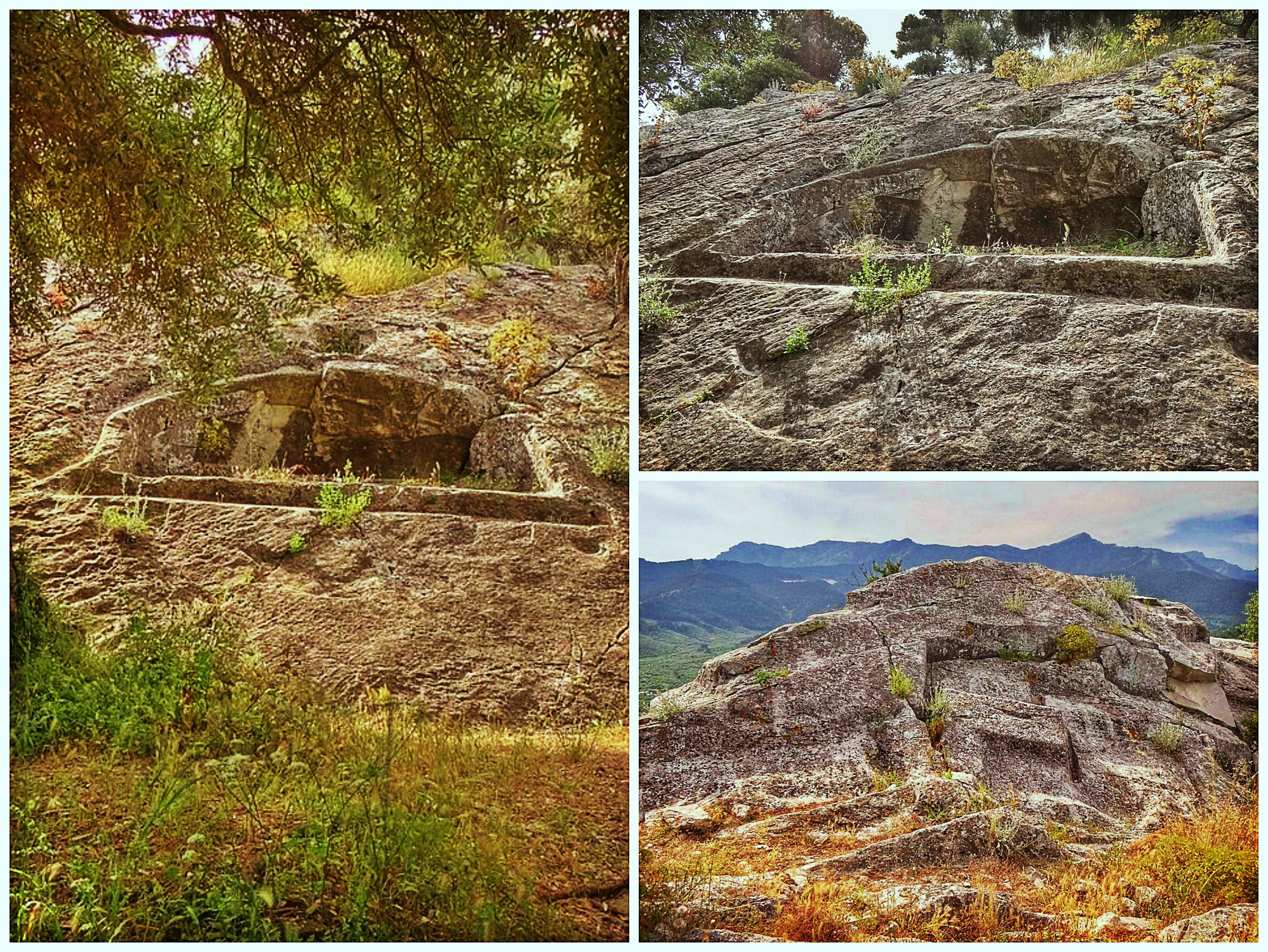 Pans cave Thasos GR